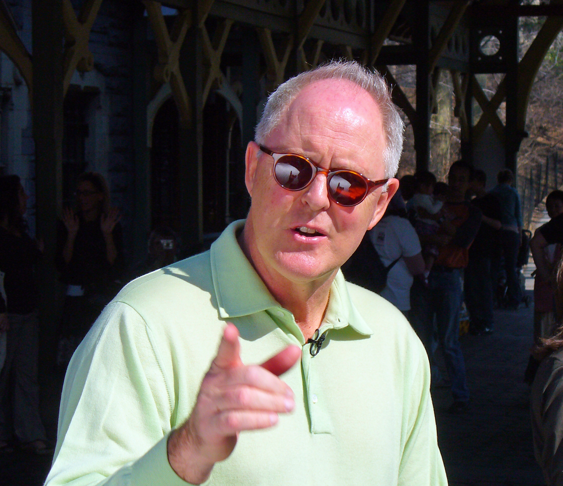 John Lithgow in Central Park